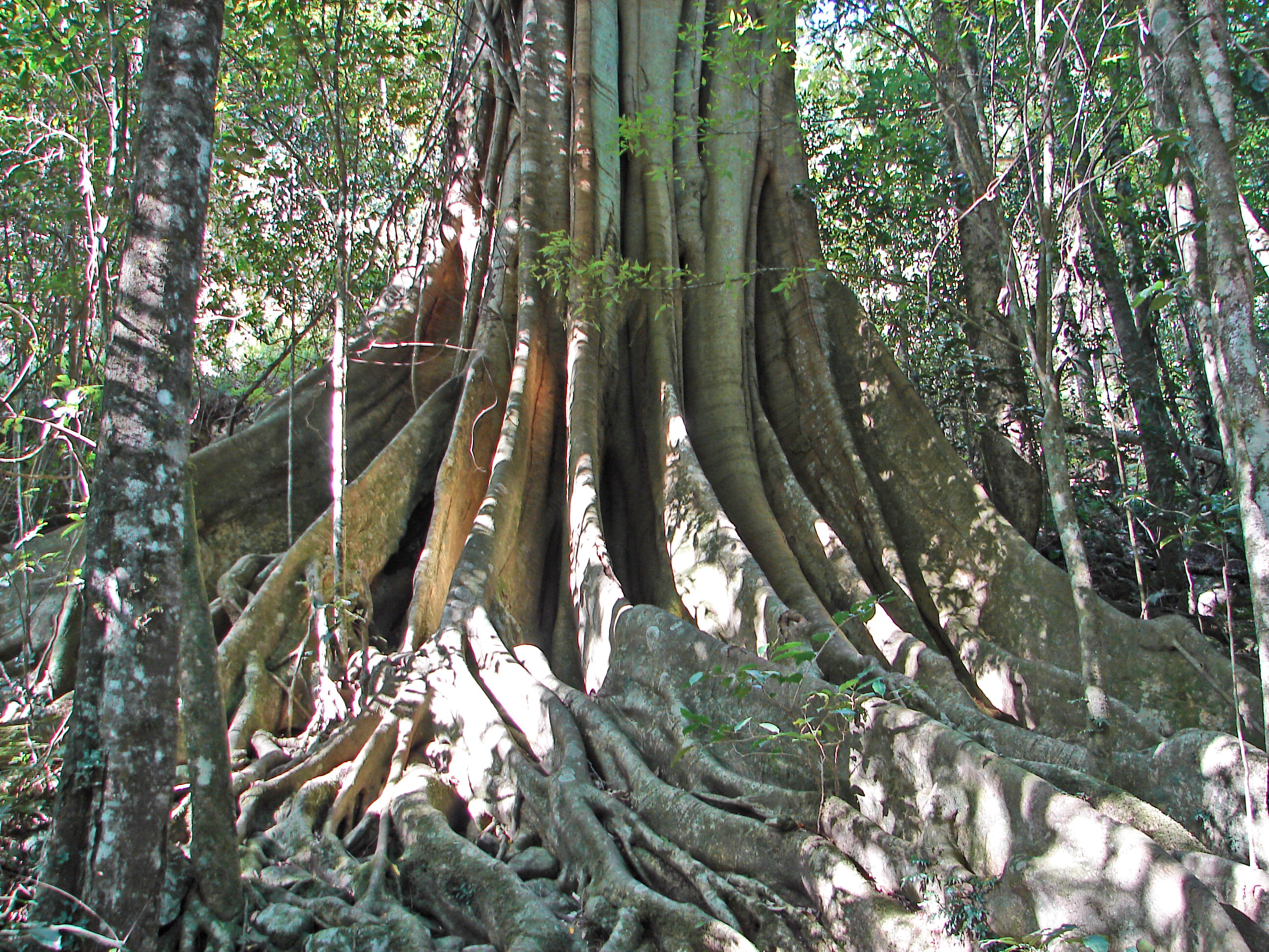 Giant buttressed trunk of Ficus obliqua, Barrington Tops NP. Tree measured at 56 metres tall